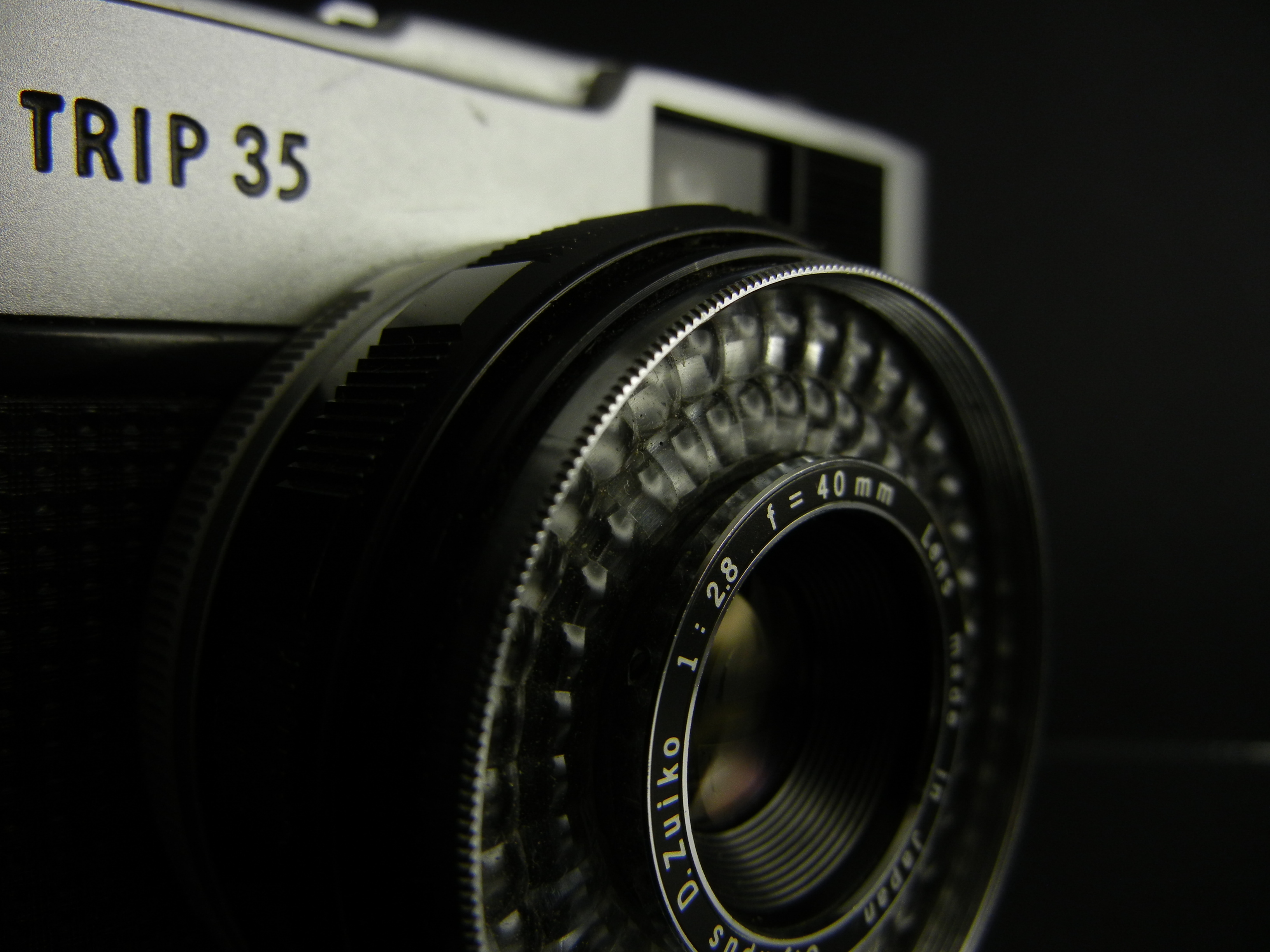 Mine too! My photoblog: Thanks for watching. Gerry :)